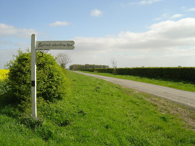 Kiplingcotes Finishing Post, East Riding of Yorkshire, England.The Kiplingcotes (also spelled Kipling Cotes) race is the oldest in England having taken place every year since 1519. It is run every spring. One quirk of the ancient rules means the second place rider usually receives more in prize money than the winner. It might not look much like a proper racecourse but the clerk is only paid 5 shillings a year for maintaining it.